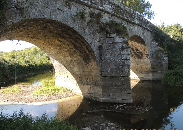 light crosses under the pont des romains bridge archs in Evry Gregy sur Yerre